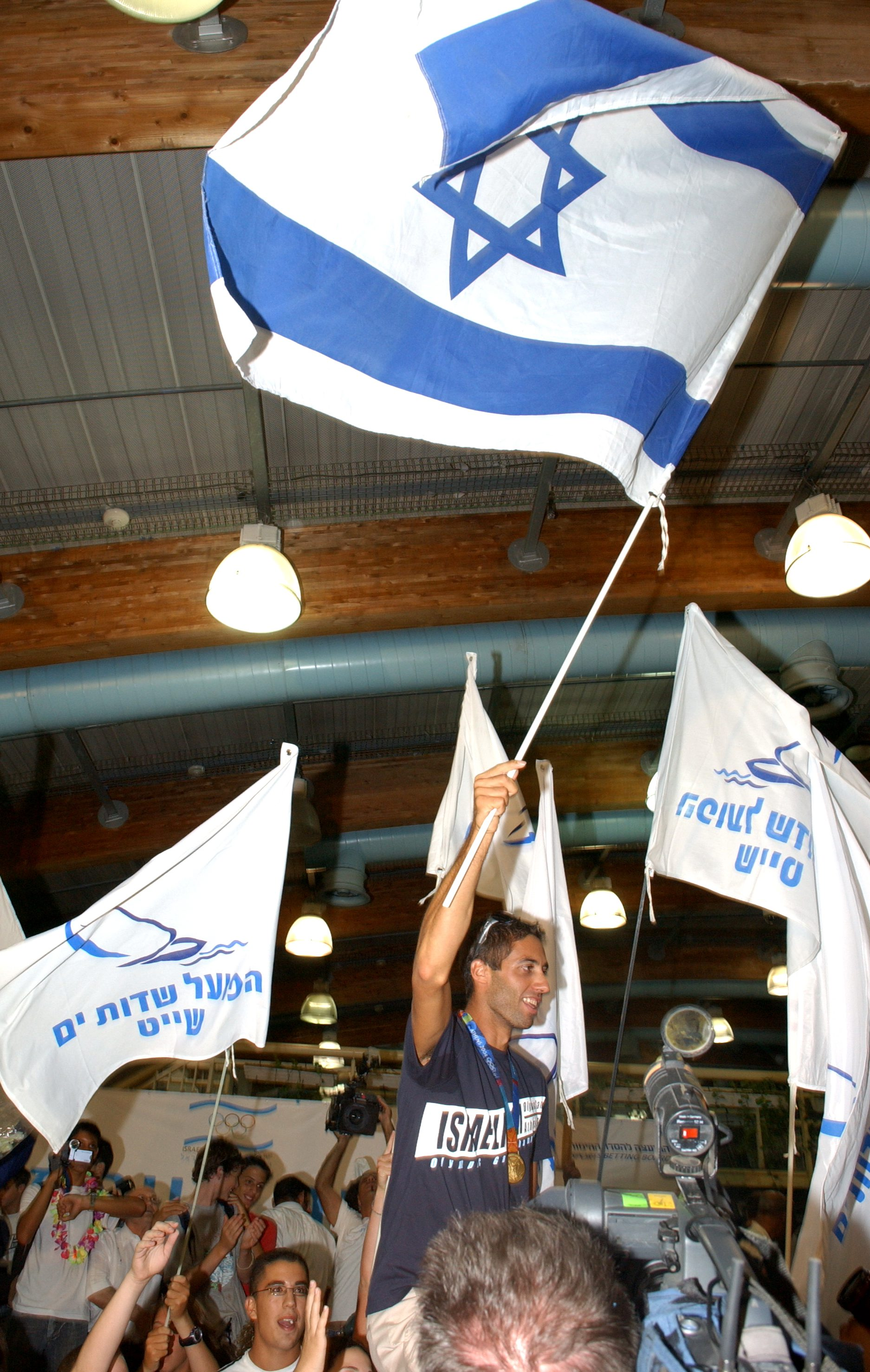 Gold Medalist Windsurfer Gal Fridman at the official reception at Ben-Gurion Airport for Israel’s Olympic athletes’ return from the Athens 2004 Olympic Games. זוכה מדליית הזהב בגלישת רוח, גל פרידמן, בקבלת הפנים הרשמית בנמל התעופה בן גוריון בקבלת הפנים הרשמית שנערכה עבור הספורטאים האולימפיים של ישראל שחזרו מאולימפיידת אתונה 2004. Photo: Moshe Milner (1946–) Alternative names Miylner, Moše; Milner, Mosheh; Moshé Milner; Milner, M.; Mîlner, Moše; Miylner, MošehDescriptionIsraeli photographerצלם ישראליDate of birth 1946 Location of birth Germany Authority control : Q28750411 VIAF: 100999744 ISNI: 0000 0001 0804 0507 LCCN: n82072104 GND: 115699732 BNF: 15548788n WorldCat creator QS:P170,Q28750411 , 30/08/2004.